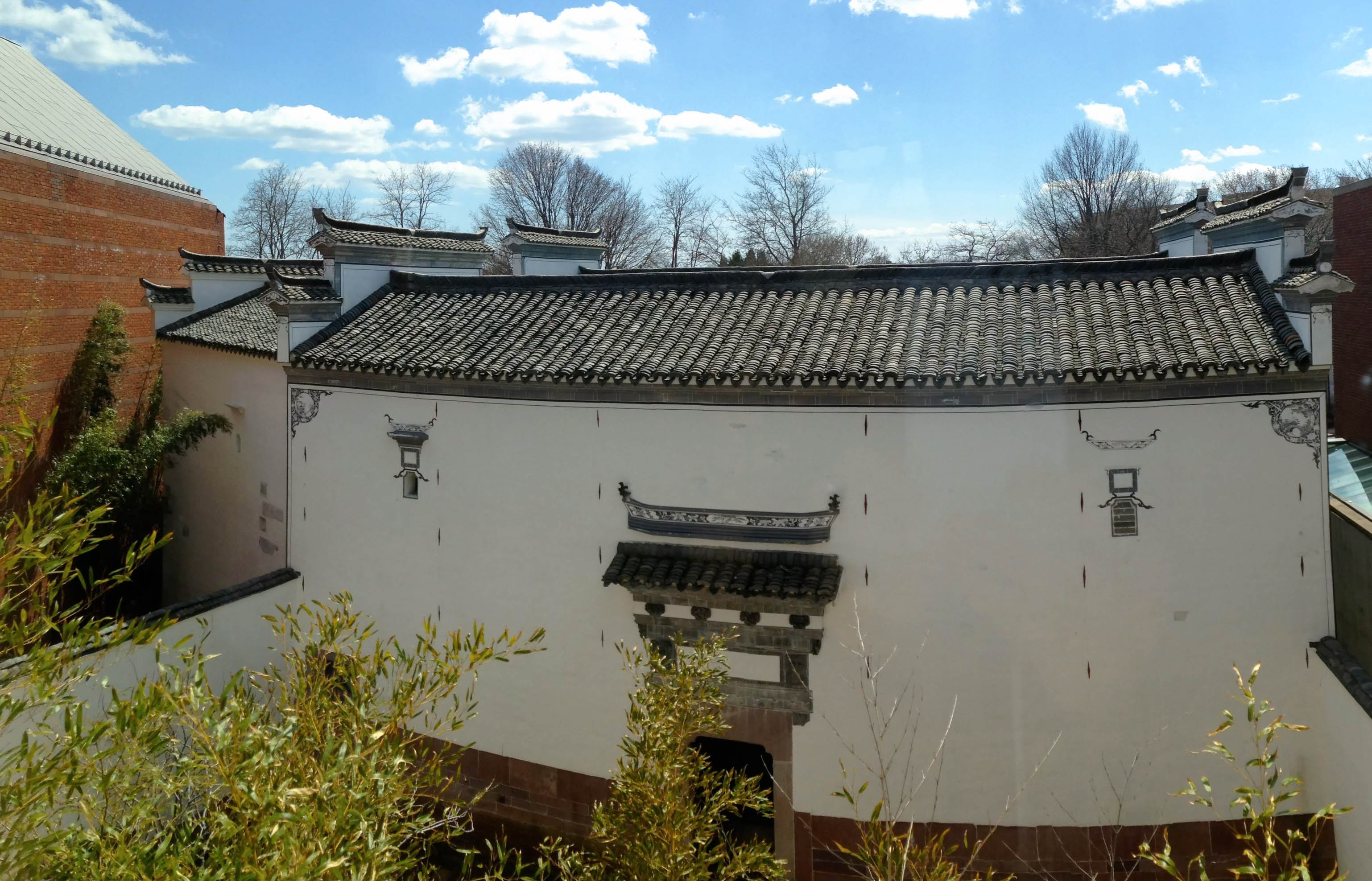 The Yin Yu Tang house at the Peabody Essex Museum in Salem, Massachusetts. Photographed from an upstairs window as no photography is permitted inside.